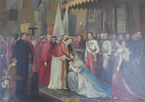 Official visit of Pope Pius VII to Modena. To greet him, in front of the cathedral, Francis IV, duke of Modena, his wife, duchess Maria Beatrice, and their court